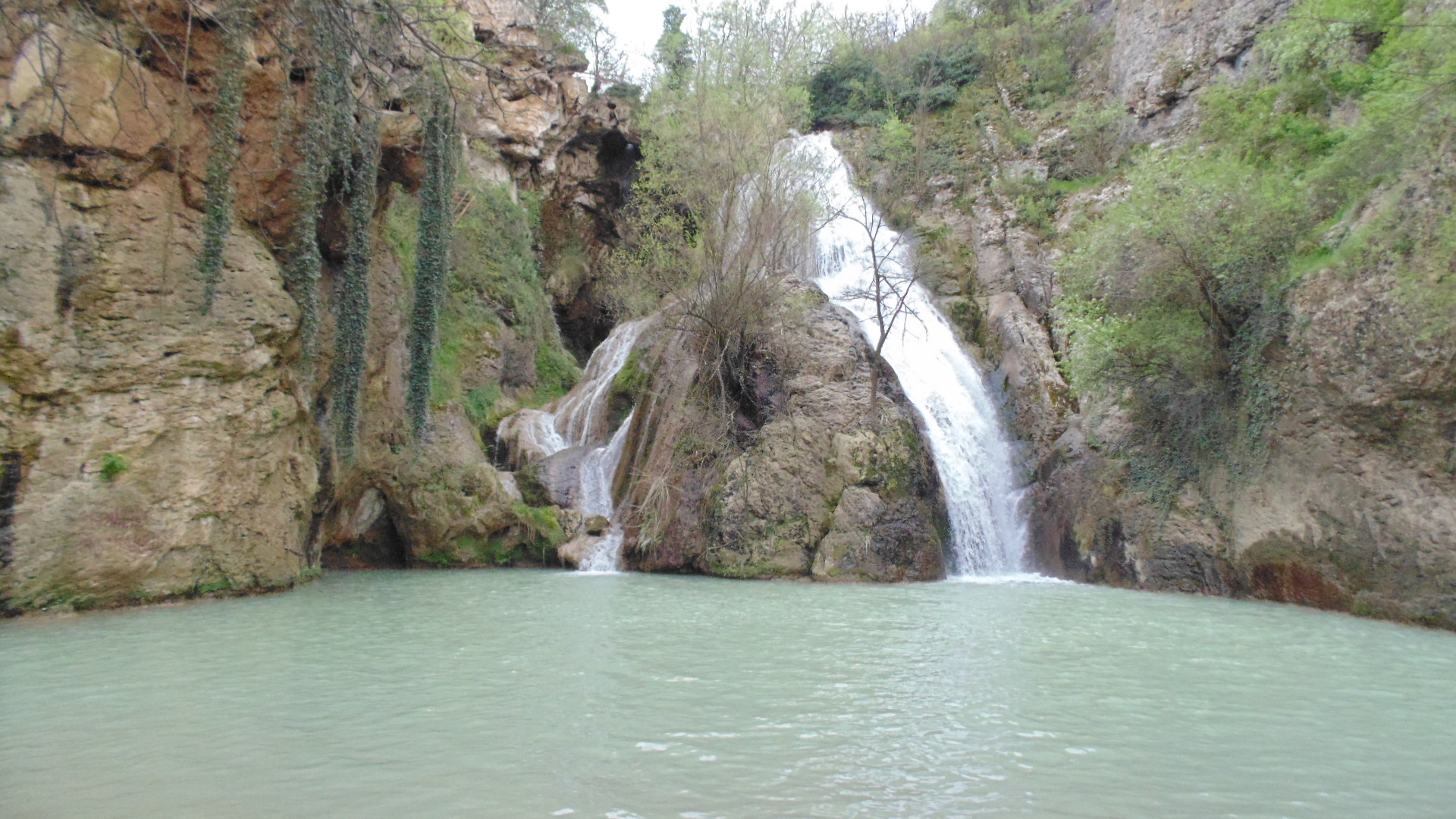 Waterfall near village Hotnitsa